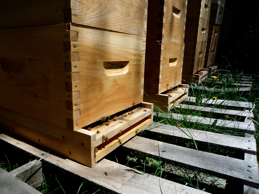 Beehives at an organic farm